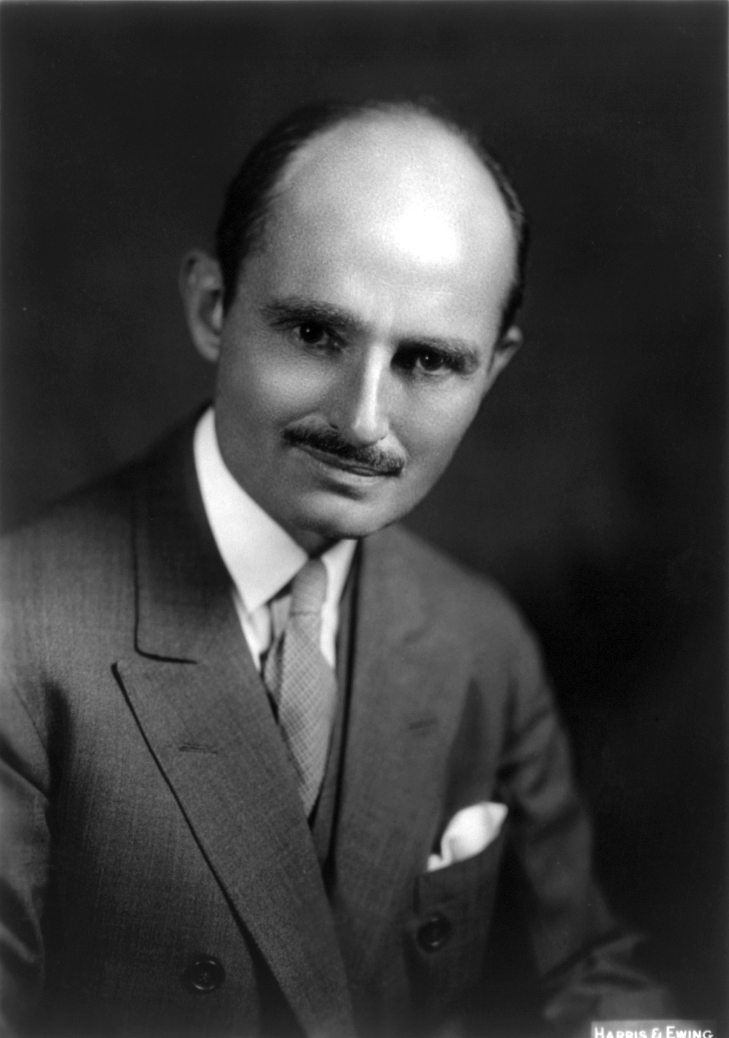 Francis Biddle, former Attorney General of the United States and the primary American judge during the Nuremberg trials.